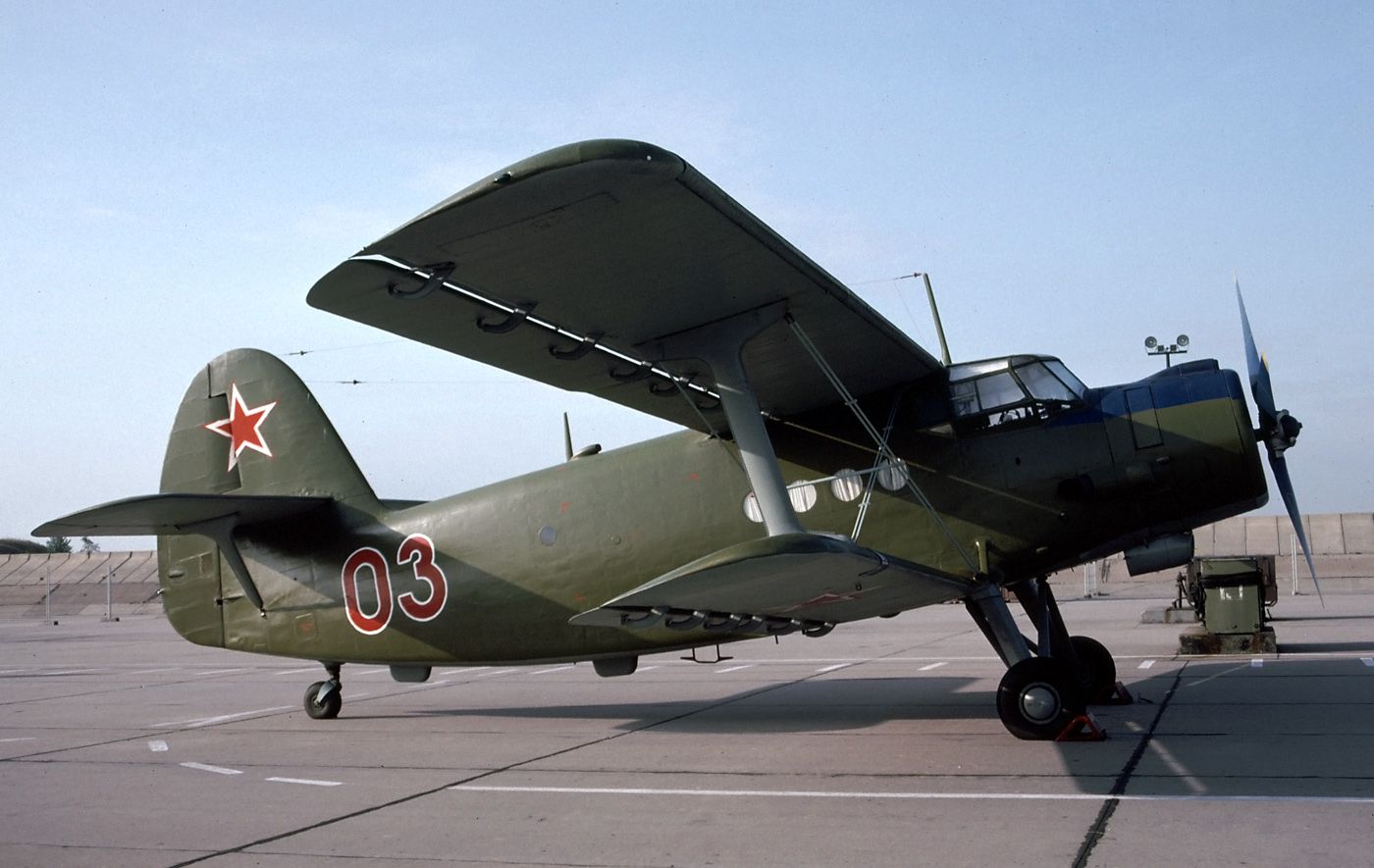 A classic, still in use with the Russian Air Force.